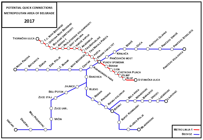 potential_public_transport_belgrade